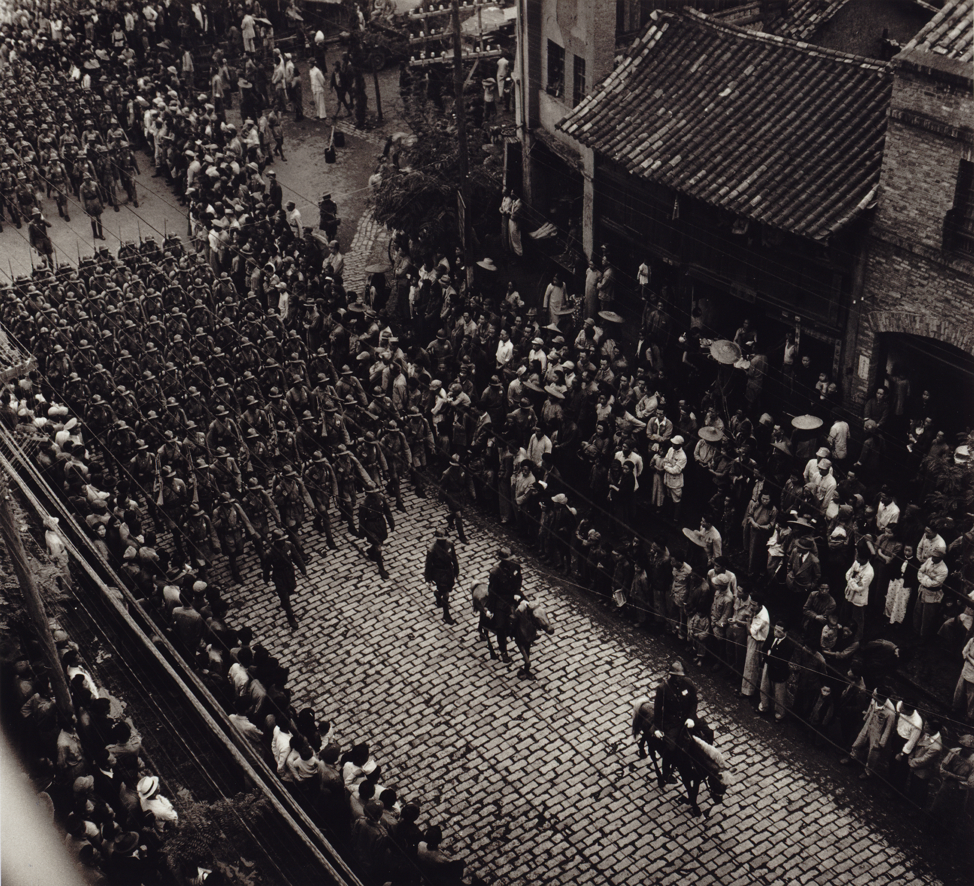 View from above of provincial troops marching along city street in the Jiangsu Province or Yunnan Province in China